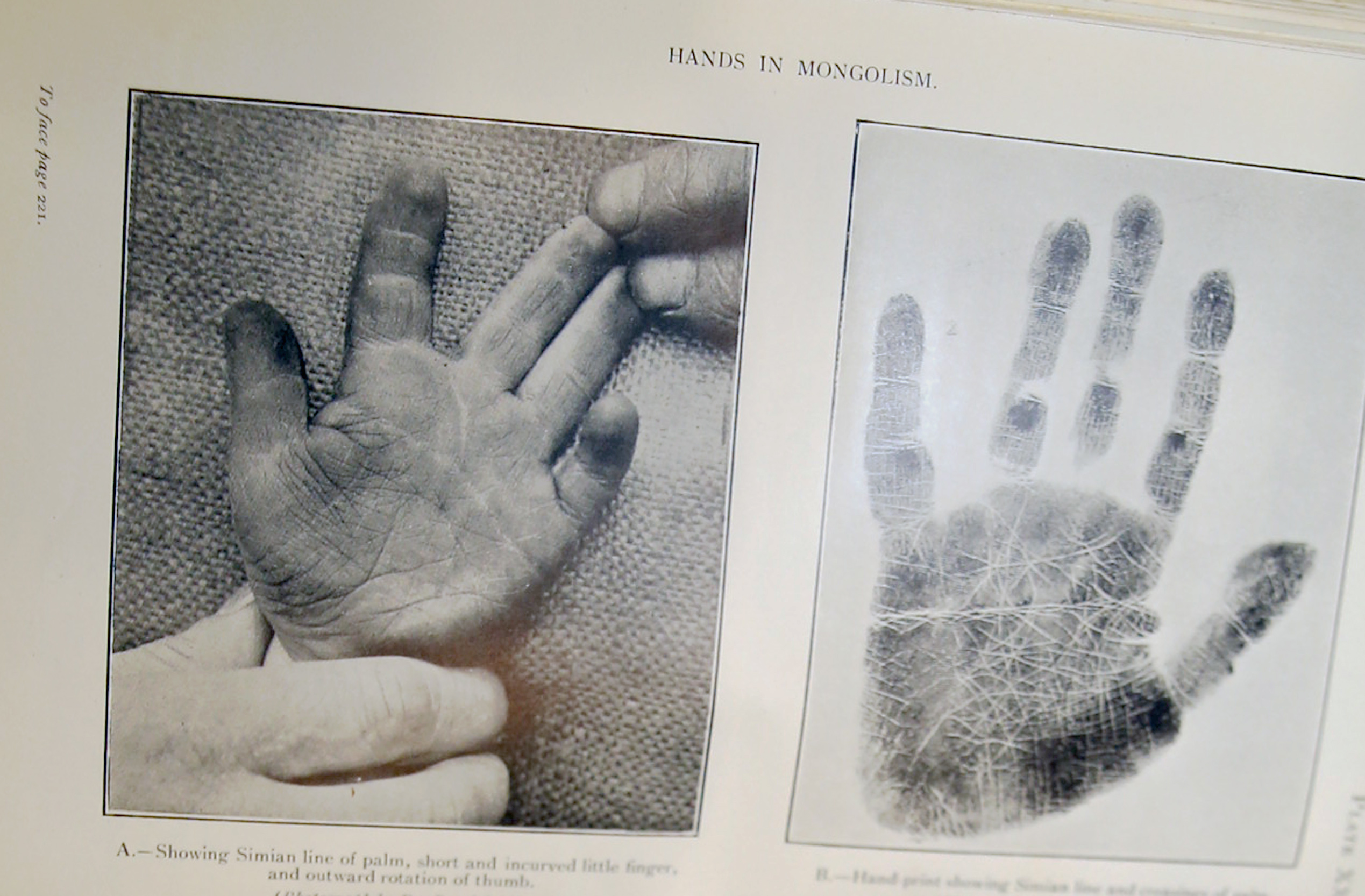 SCHWACHSINN (Amentia) (GERMAN)